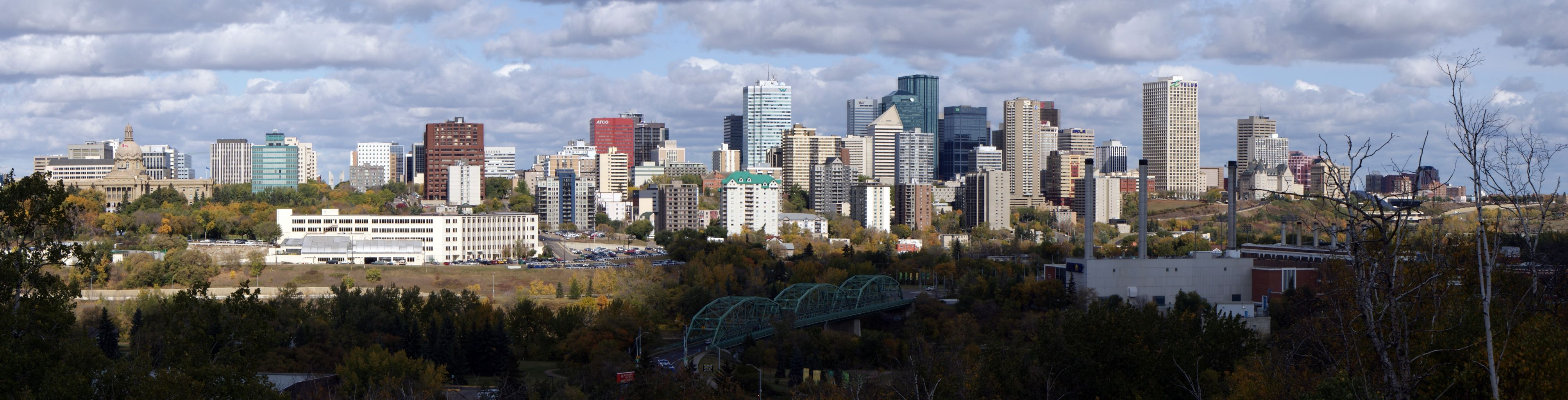 This is a panorama of the downtown Edmonton Skyline, Taken by Steven Mackaay